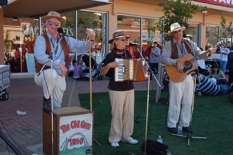 The Old Gum Tree-O, a three-piece Australian bush band from Vale Park, Adelaide, South Australia, Australia, performing at the Royal Adelaide Show, an annual agricultural show/festival held in Adelaide, Australia. The names of the musicians are not known. From left to right, they are playing tea chest bass (called "soap box" in the festival's publicity), accordion, and steel-string acoustic guitar, and all three appear to be singing as well. Photo taken along the newly renovated Kingsway at the Adelaide Showgrounds, in the Wayville neighborhood of Adelaide, Australia, with a Nikon D50 digital camera.